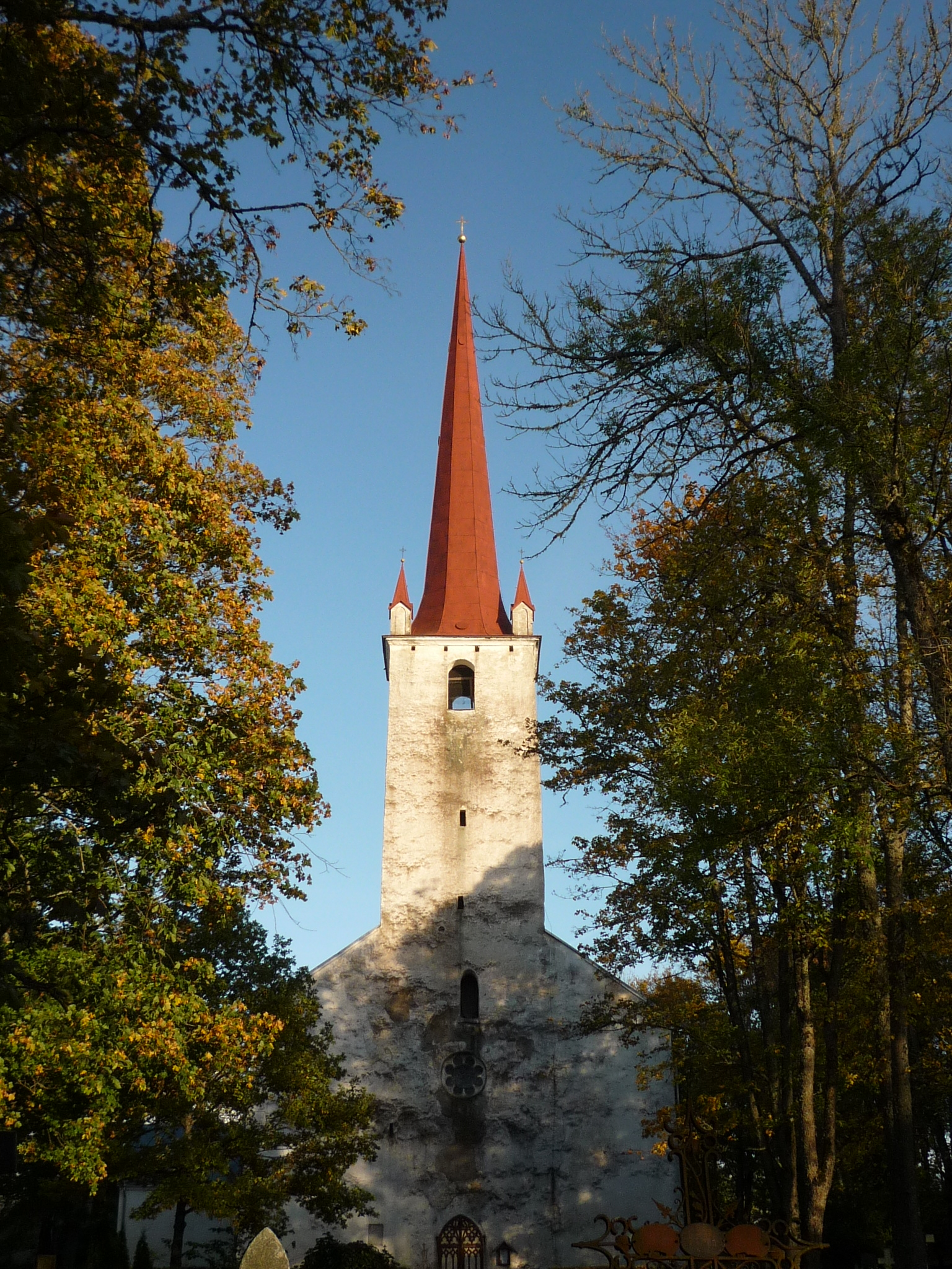 Ambla church. Ambla, Ambla parish, Järva county, Estonia.